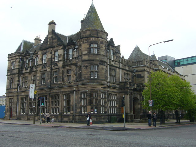 McDonald Road Library, Leith Walk